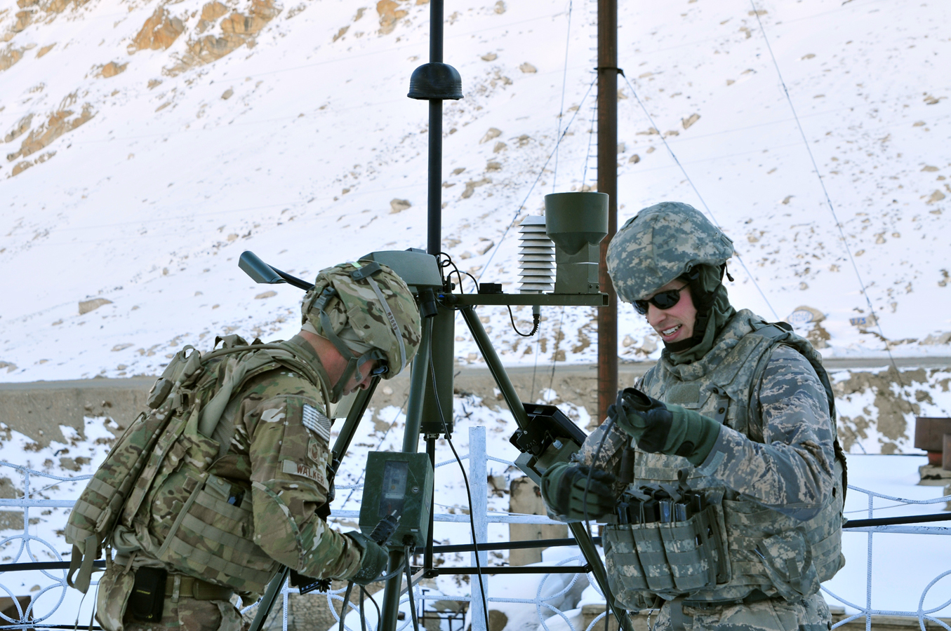 Deployed TMOS: Senior Master Sgt. Paul Walker, left, a squadron superintendent, and Senior Airman Erik Dowling, a staff weather officer, both assigned to the 19th Expeditionary Weather Squadron, set up a Tactical Meteorological Observing Sensor at the north side of Salang Pass, Afghanistan. The sensor will allow the Afghan Air Force to collect atmospheric data and disseminate it to ISAF and to the local Afghan population.